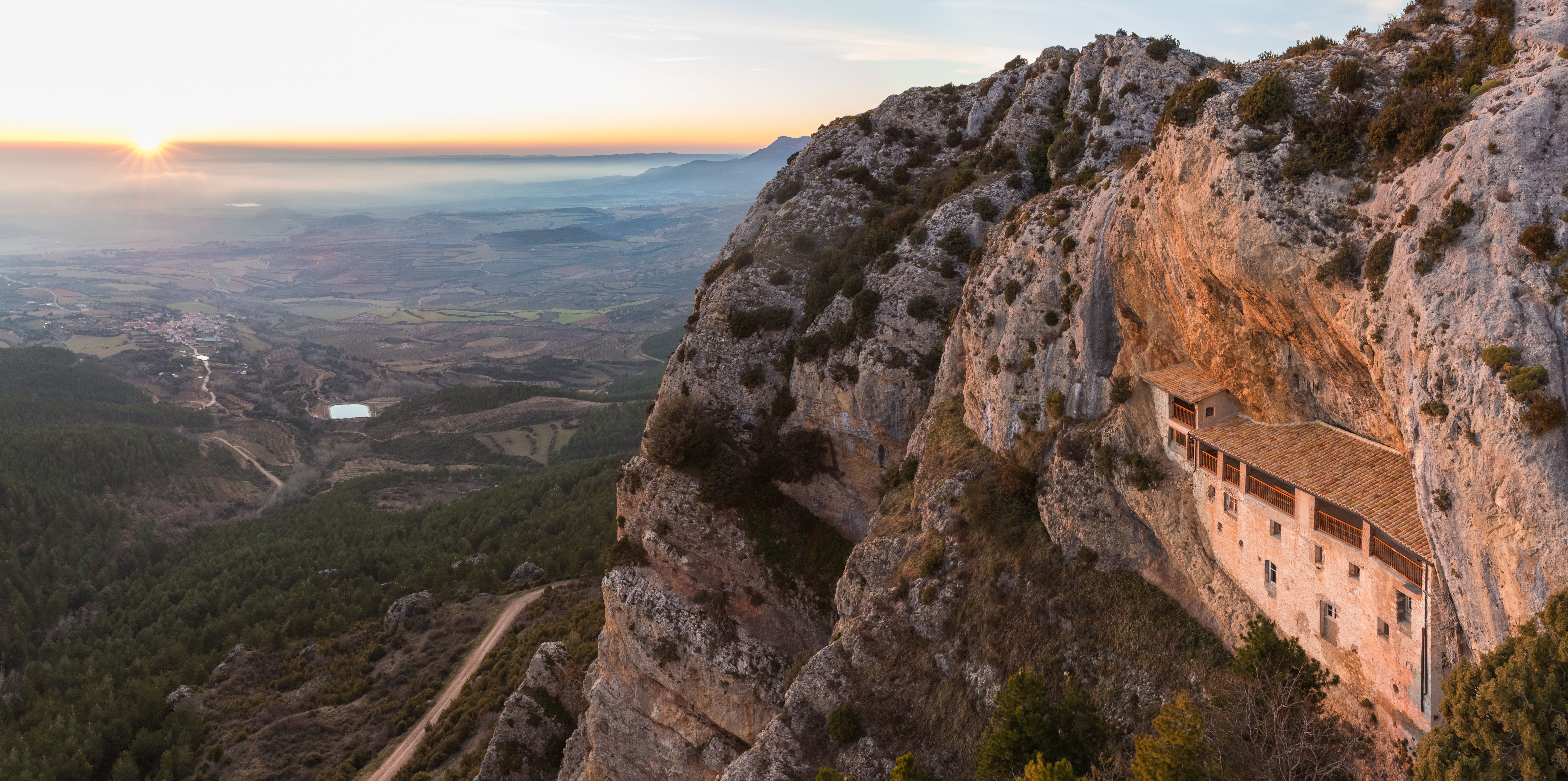 Sunset view of the Hermitage of the Virgen de la Peña (Virgin of the Rock) with the village of Aniés in the back, province of Huesca, Spain.